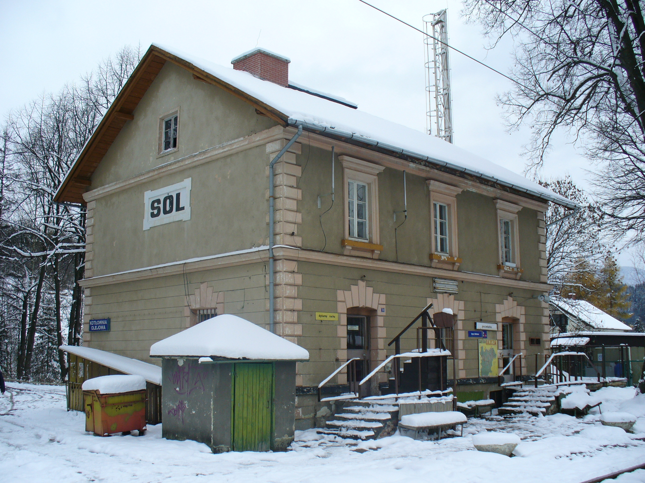 Sól train station.